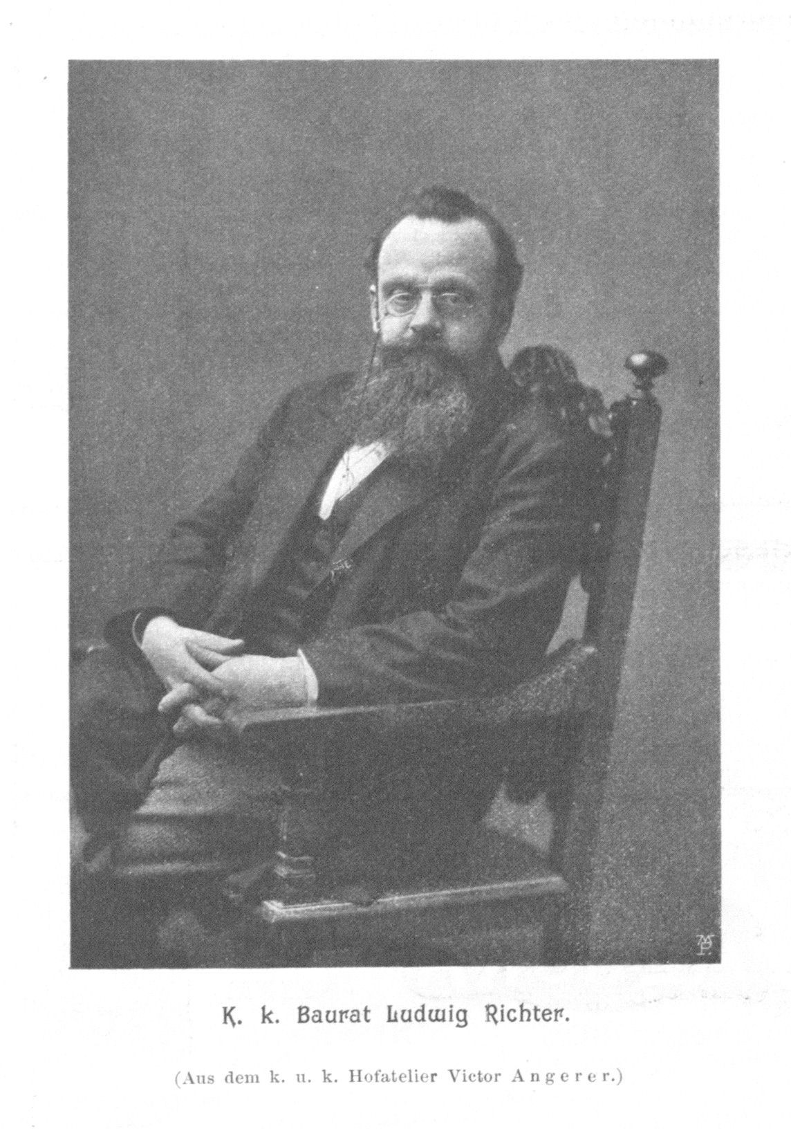 Portrait of Ludwig Richter (1855-1925), Austrian architect